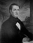 William M. Richardson, US Representative from Massachusetts